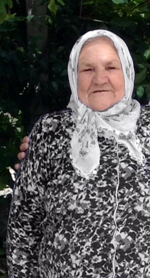 Photo of Bosniak woman Fata Orlović on the second day of Bajram, 29 July 2014